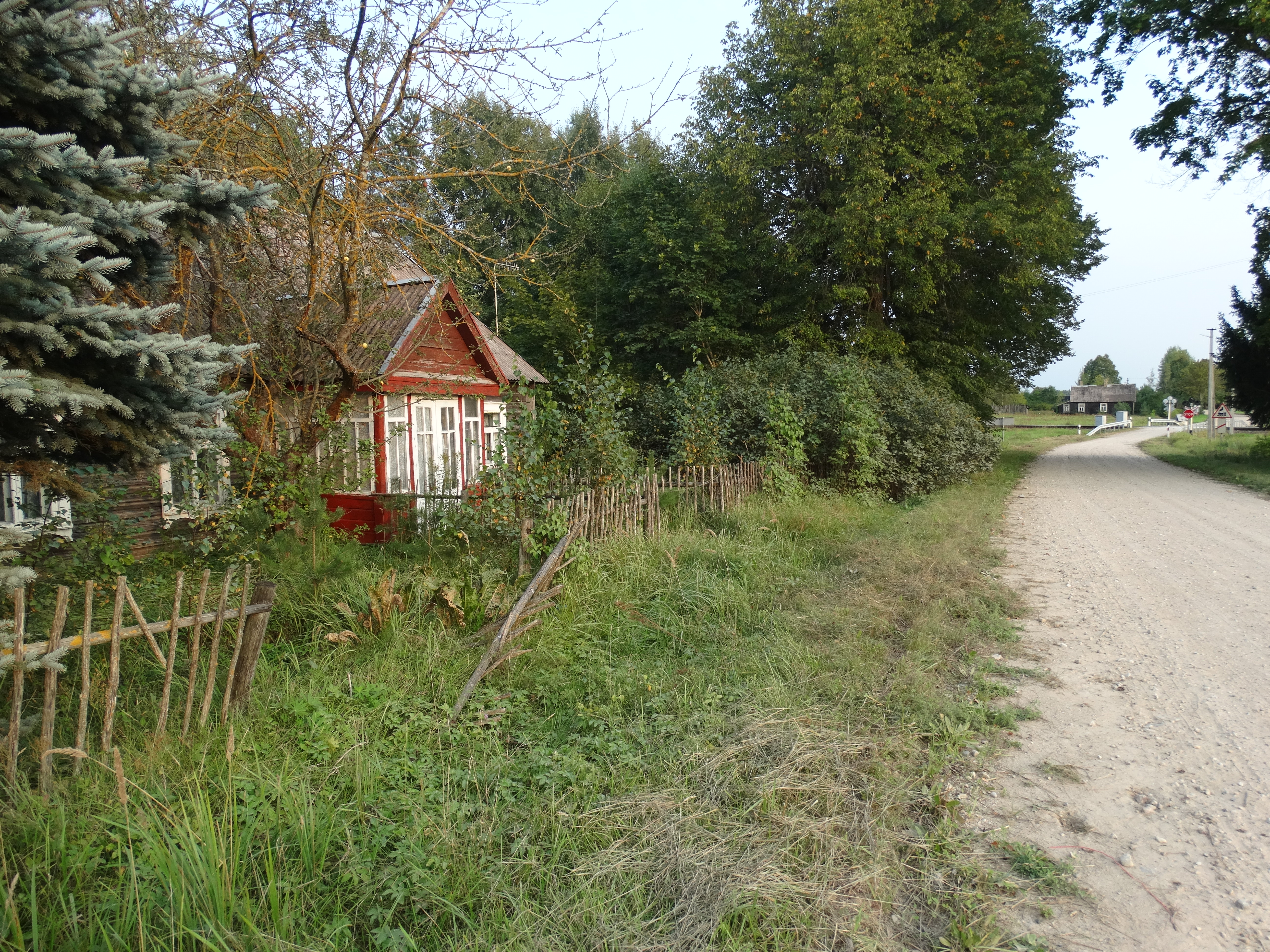 Barauka, Rokiškis District, Lithuania